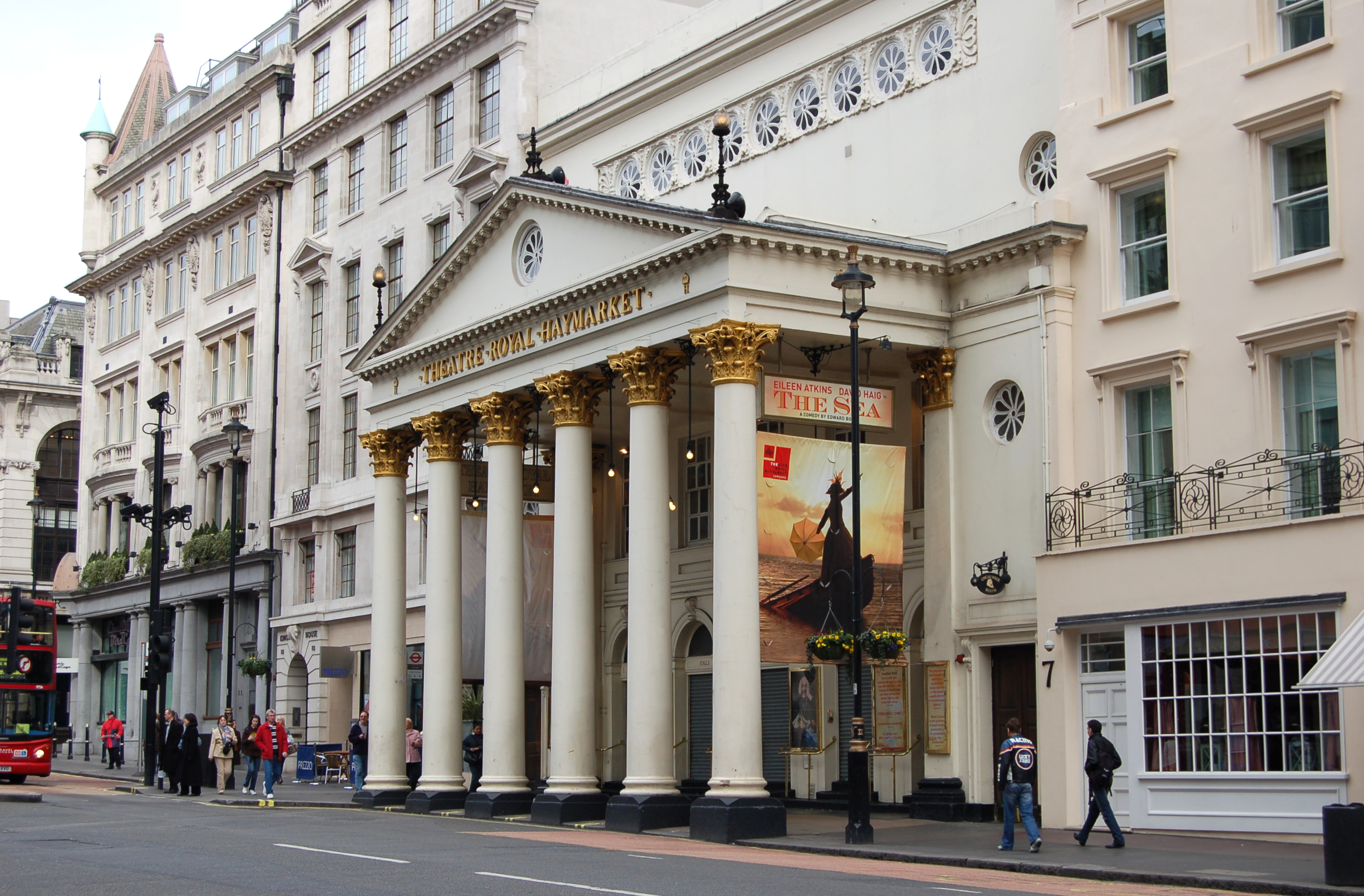 The Haymarket Theatre in 2008. Use freely, but please attribute K. B. Thompson